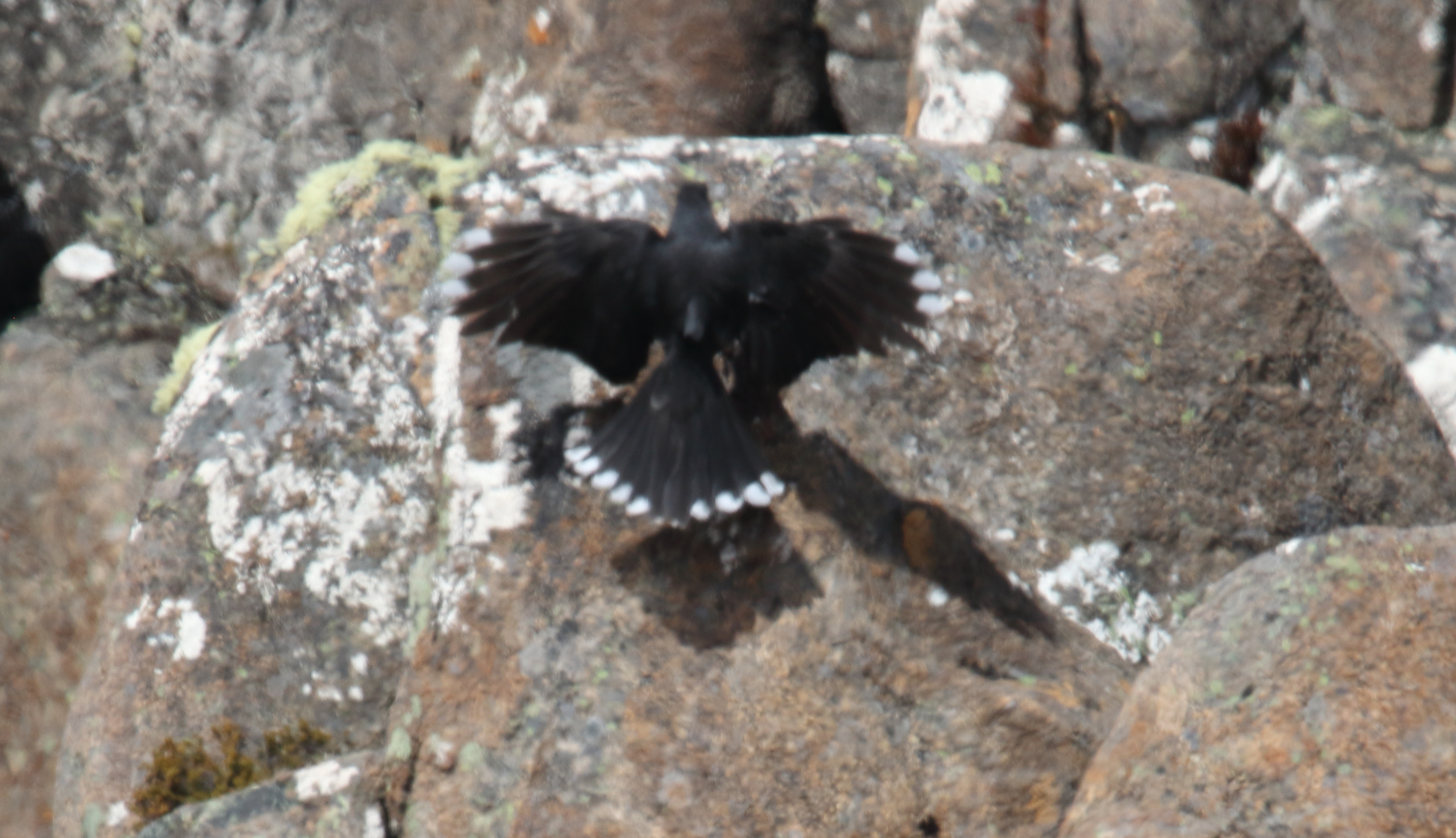 Black Currawong (Strepera fuliginosa)